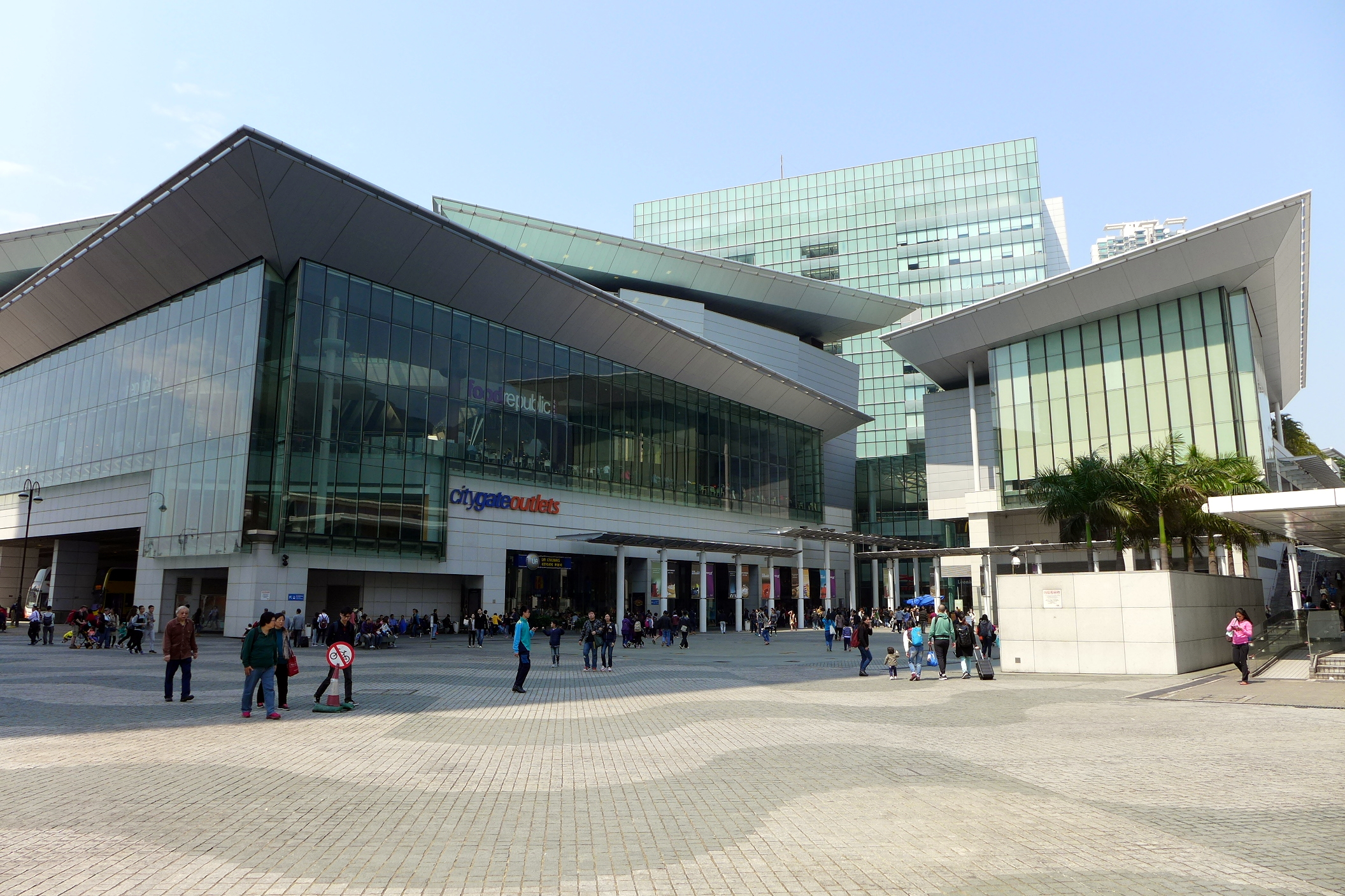 Citygate Outlet